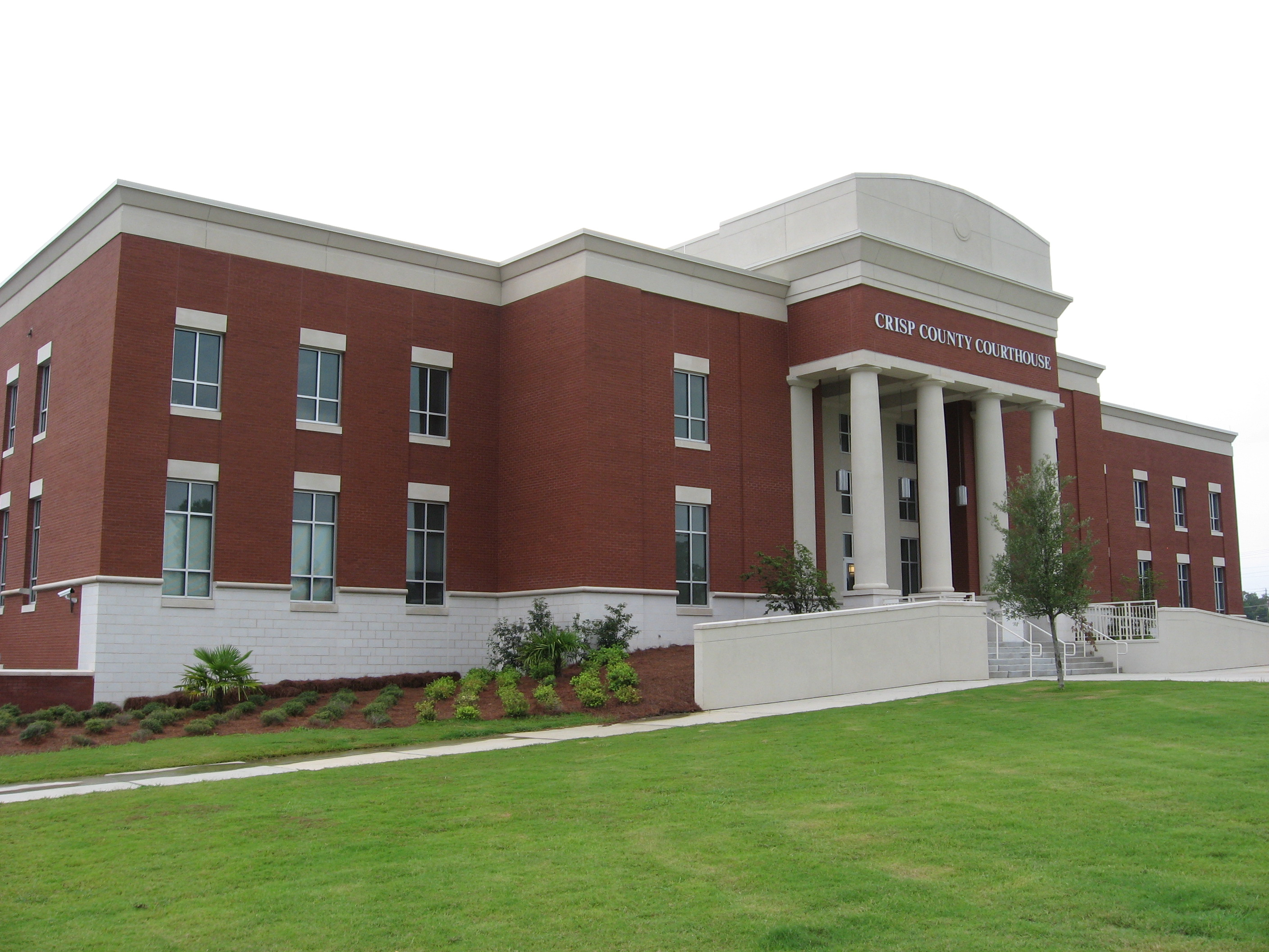 New Crisp County Courthouse